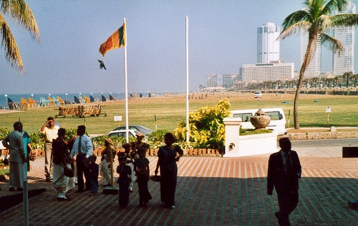 The Galle Face Green seen from the Galle Face Hotel in Colombo, Sri Lanka, in 2002.